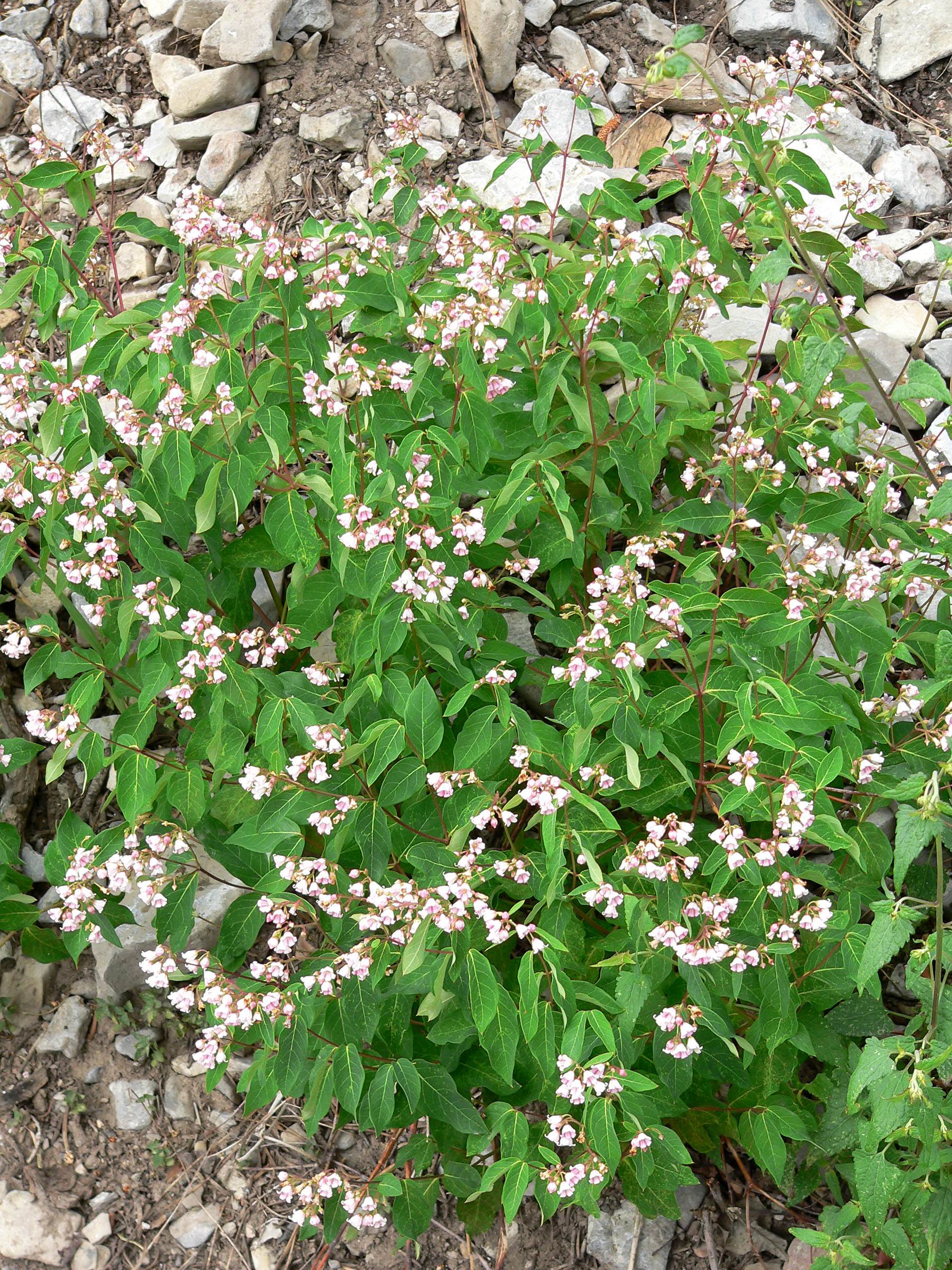 Apocynum androsaemifolium var. androsaemifolium alongside the first part of the South Loop trail, Kyle Canyon, Spring Mountains, southern Nevada (elev. about 2400 m)